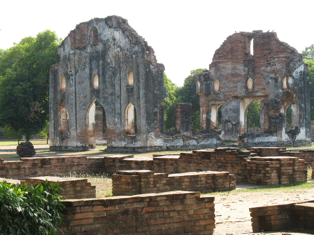 Reception Hall for Foreign Visitors, King Narai's Palace, Lopburi Province.